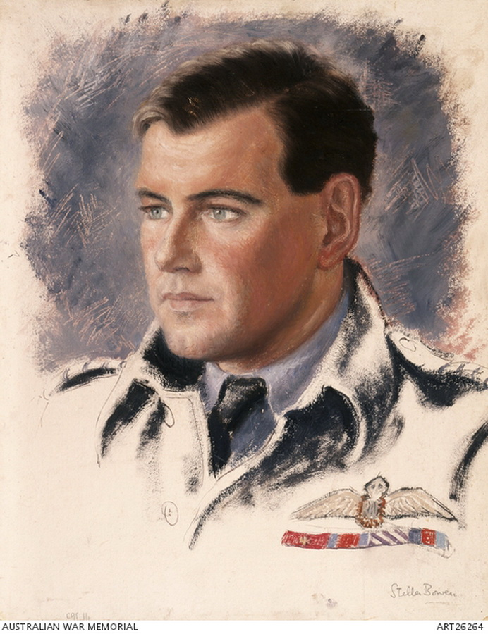 Portrait of Group Captain Hughie Idwal Edwards, VC, DSO, DFC, Bomber Command, 105 Squadron RAF.